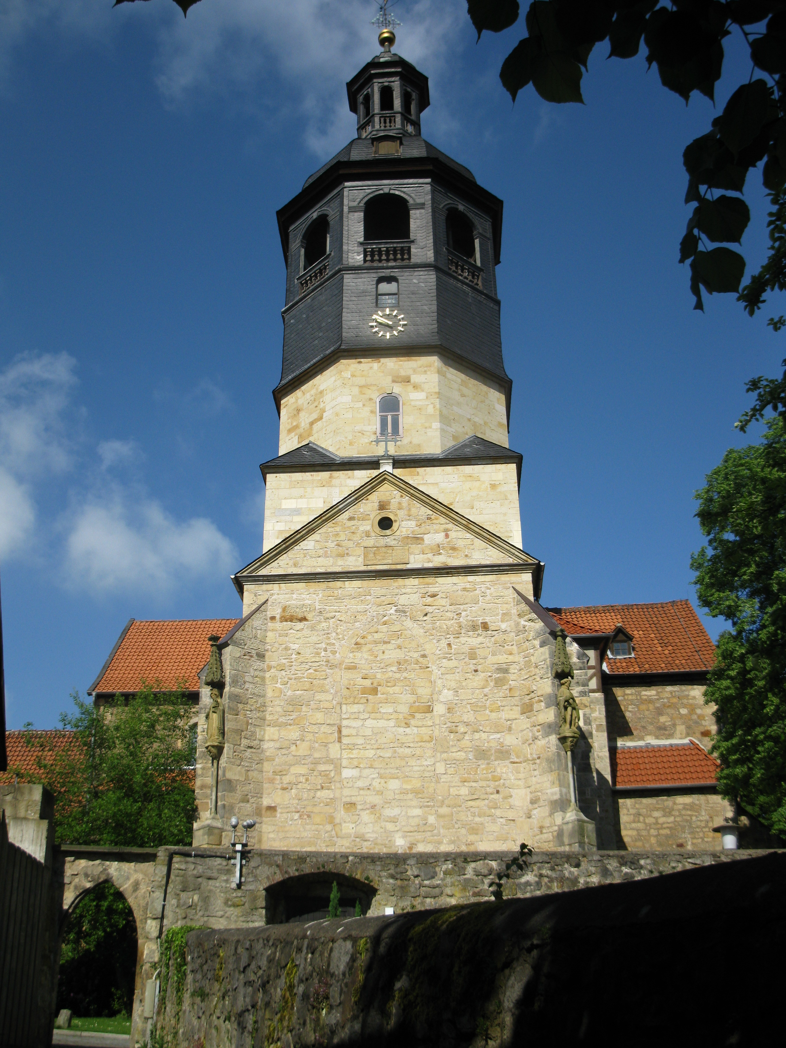 View from the lane "Kleine Steuer" to Saint Maurice Church, Hildesheim